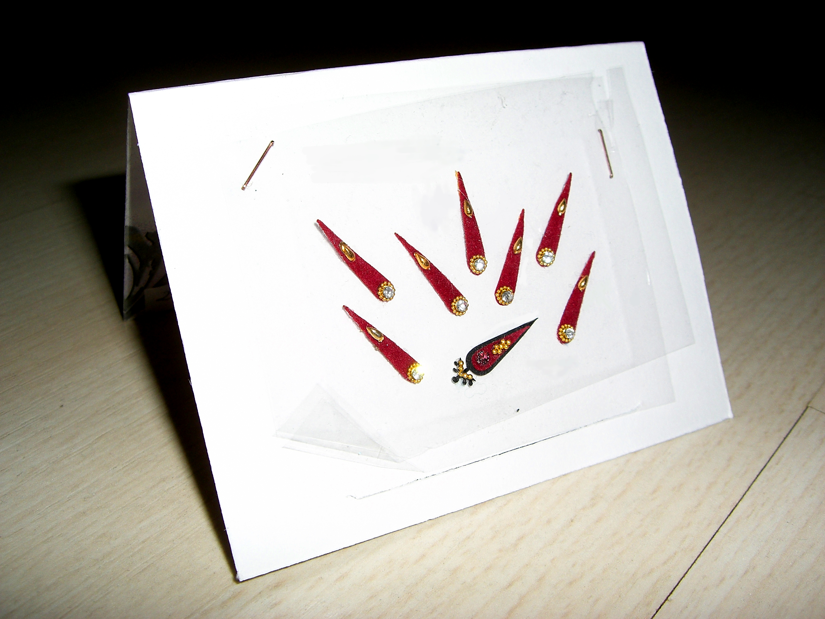 Modern Bindis as you can buy them in any regular store.